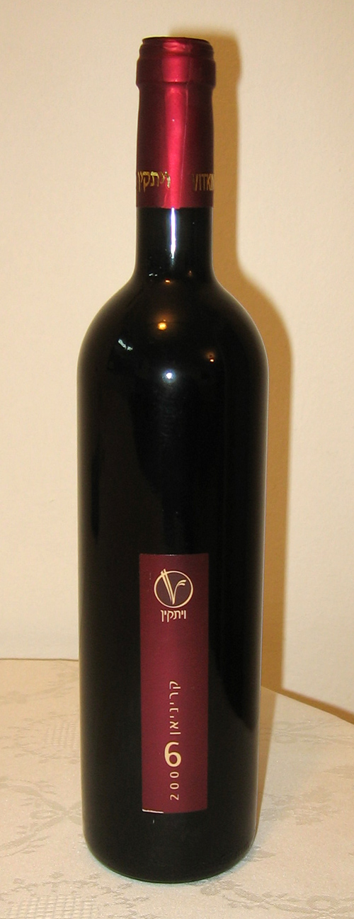 A bottle of Israeli Carignan varietal wine from the 2006 vintage